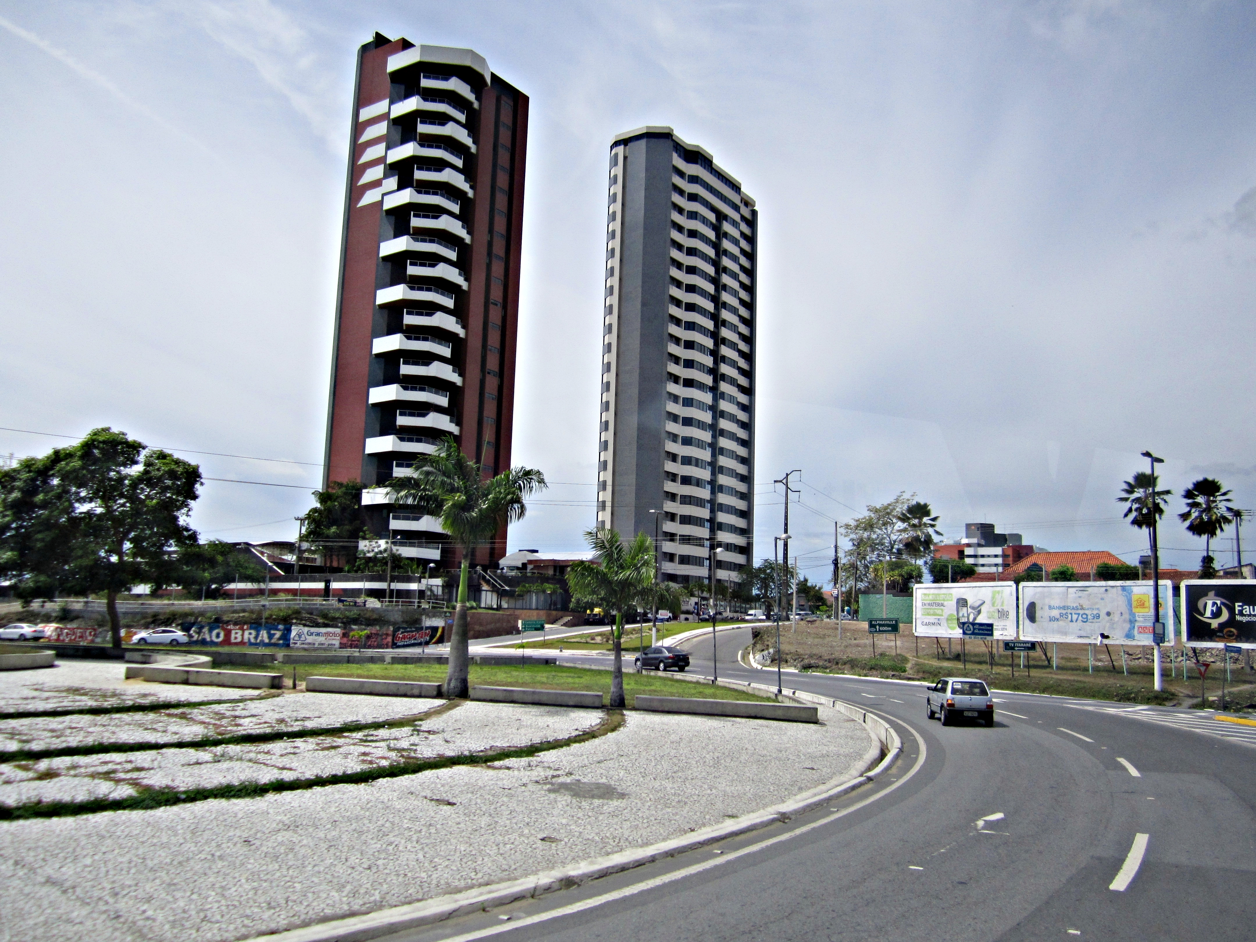 Campina Grande - Paraíba - Brazil